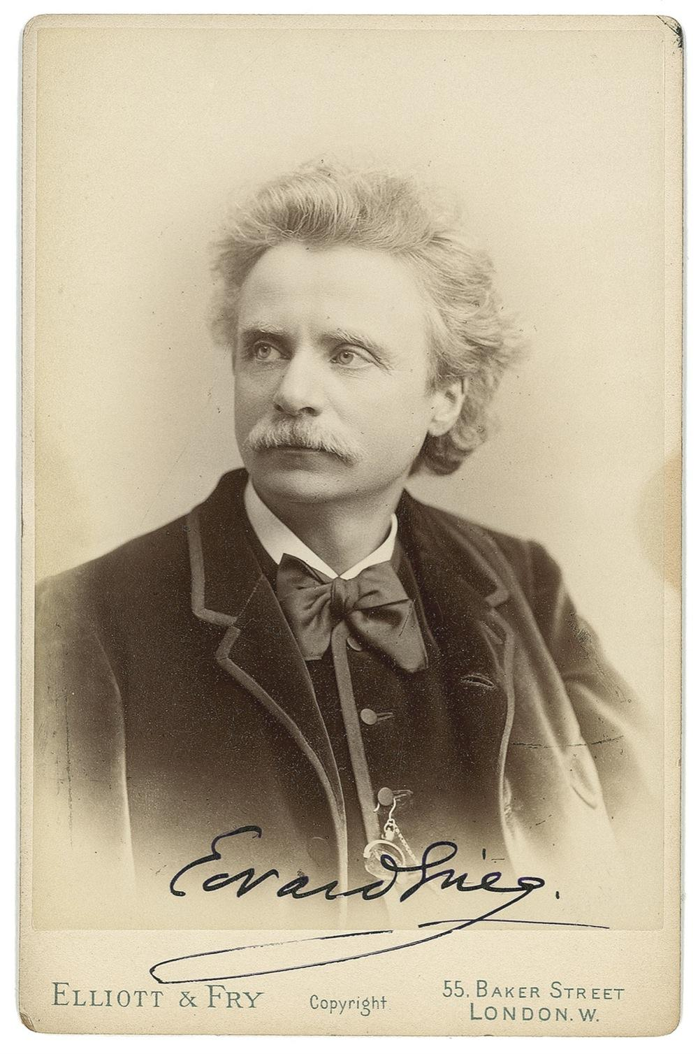 4.5 × 6.5″ cabinet portrait of Edvard Grieg taken during his trip to London in March 1888. This was published in The Leisure Hour (1889).[1] An engraving of it was made by T. Johnson and published in The Century (1894).[2] Grieg himself ordered a dozen copies.[3]